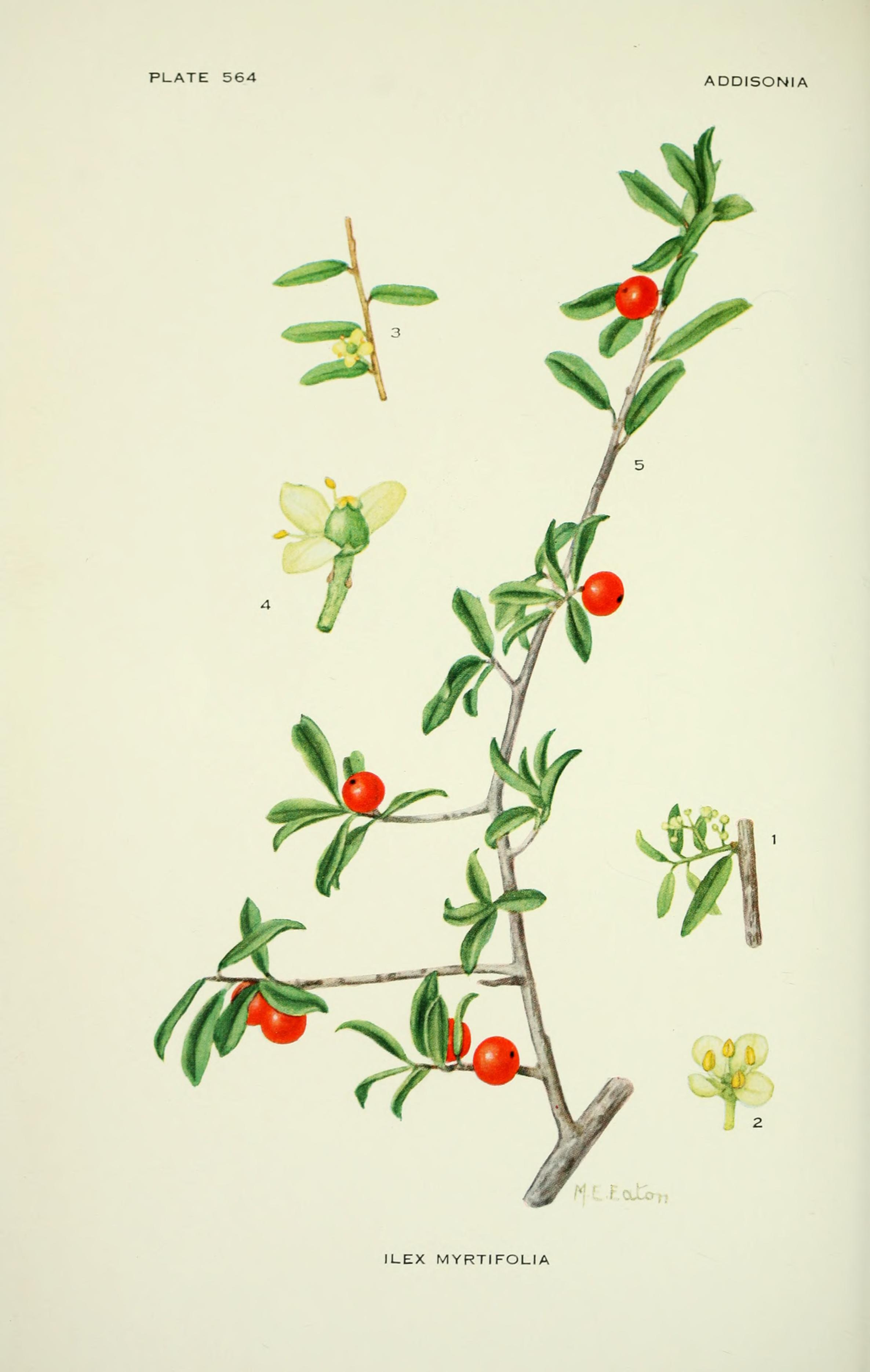 Title: Addisonia : colored illustrations and popular descriptions of plants Year: 1916-(1964) (1910s) Authors: New York Botanical Garden Subjects: Plants; Plants -- United States; Plants Publisher: New York : New York Botanical Garden Text Appearing Before Image: PLATE 564 ADDISONIA Text Appearing After Image: i*l Lf.(iXori ILEX MYRTIFOLIA